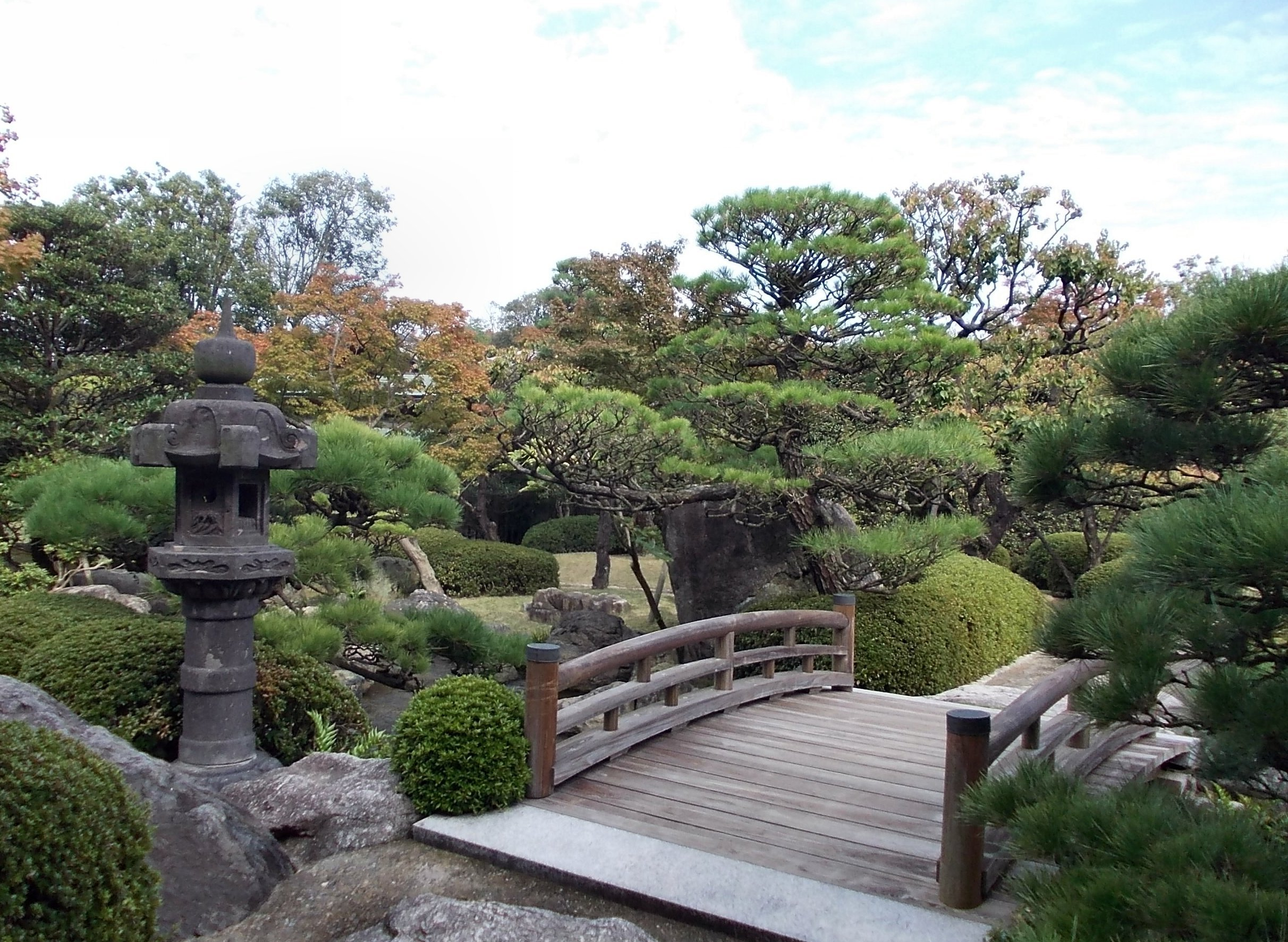 A Japanese garden in Ohori Park, Chuo-ku, Fukuoka, Japan